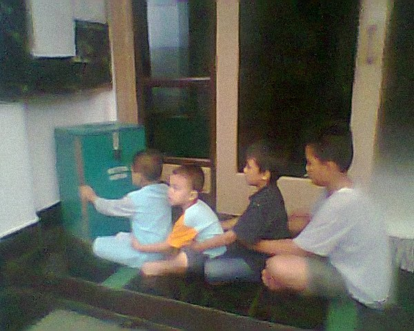 Sasalimpetan